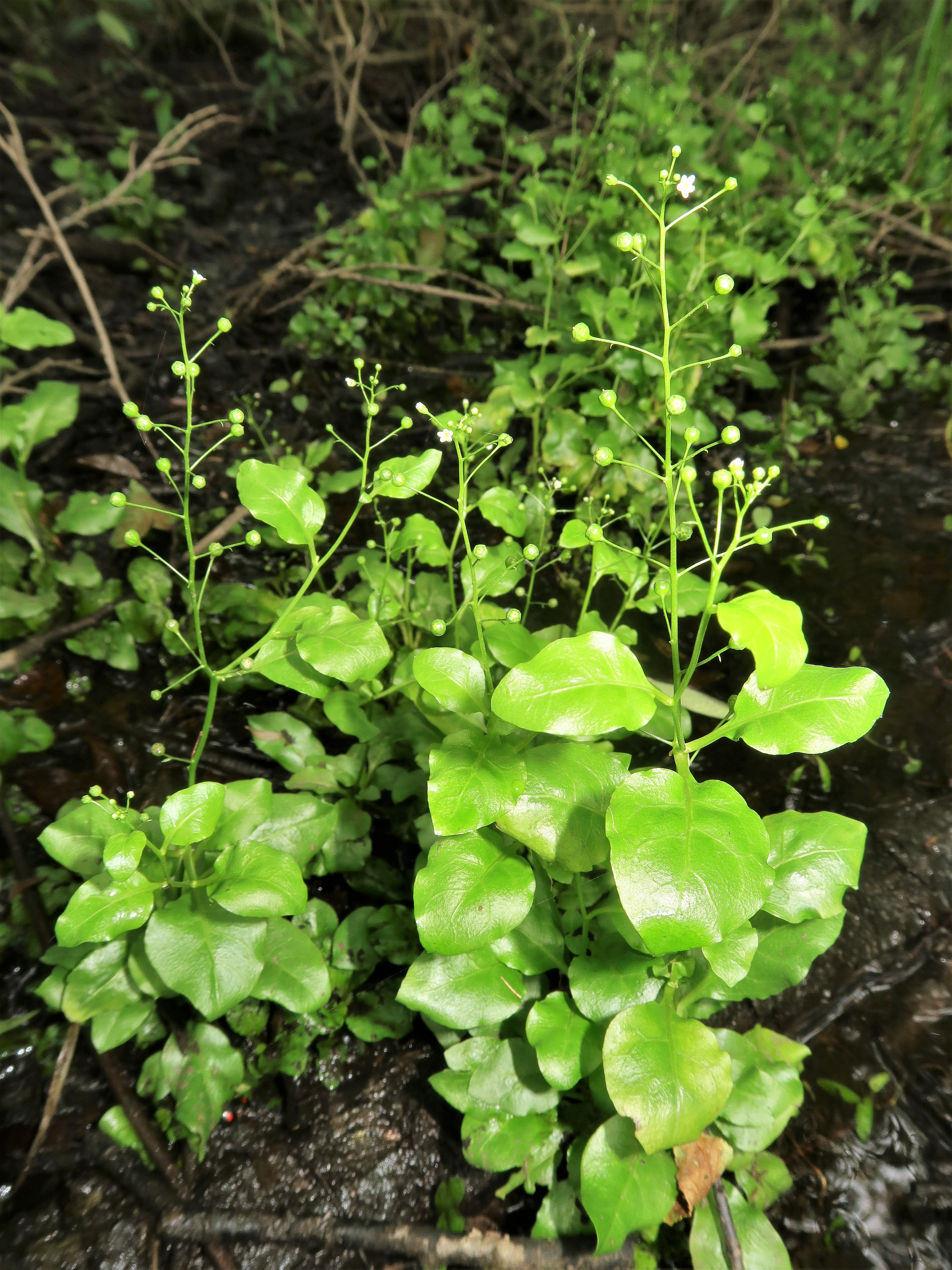 Samolus parviflorus ,Aizu area, Fukushima pref., Japan